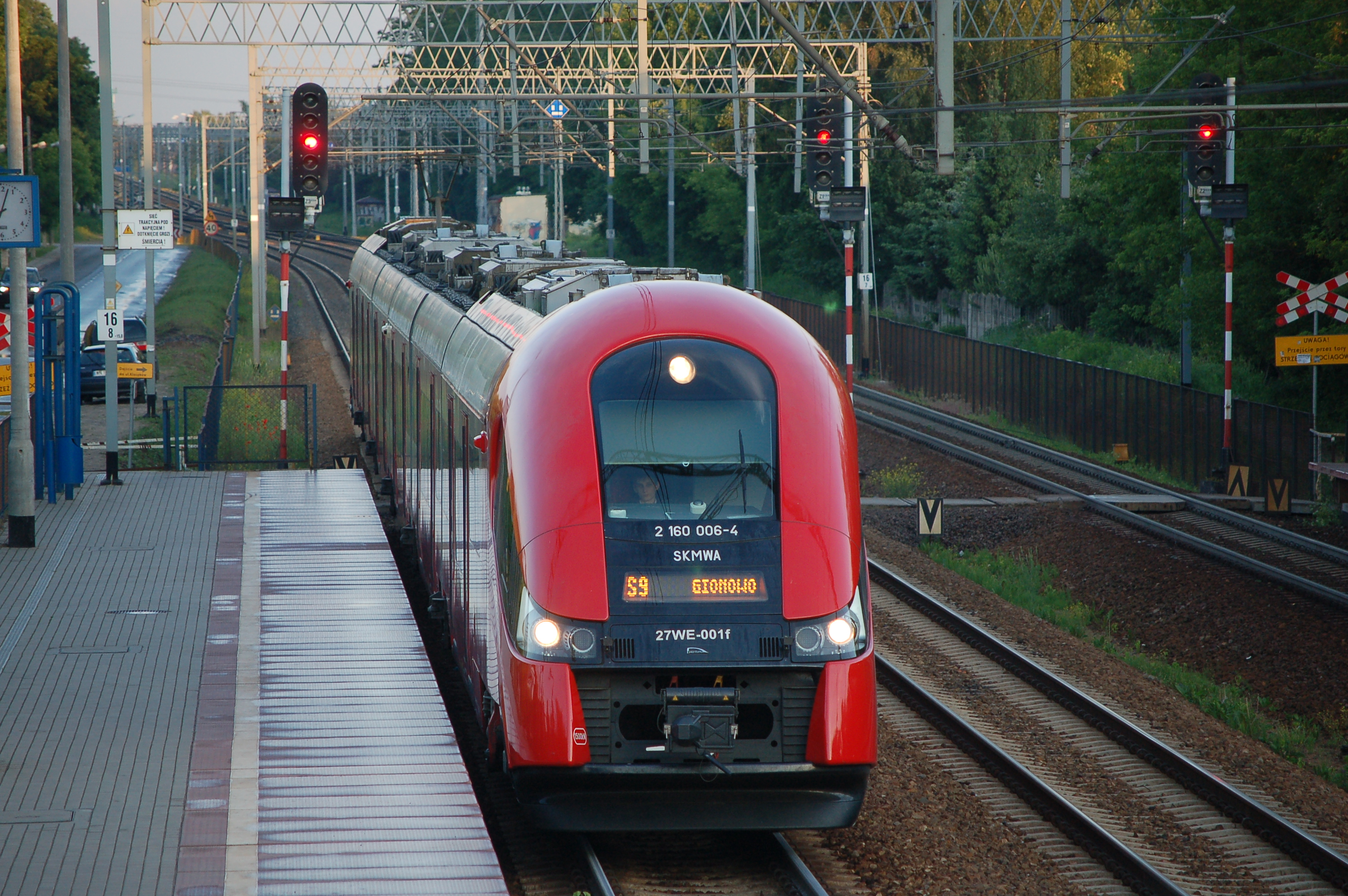 S9 approaching Warszawa Pludy